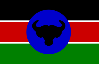 Flag of the South Sudan Liberation Movement